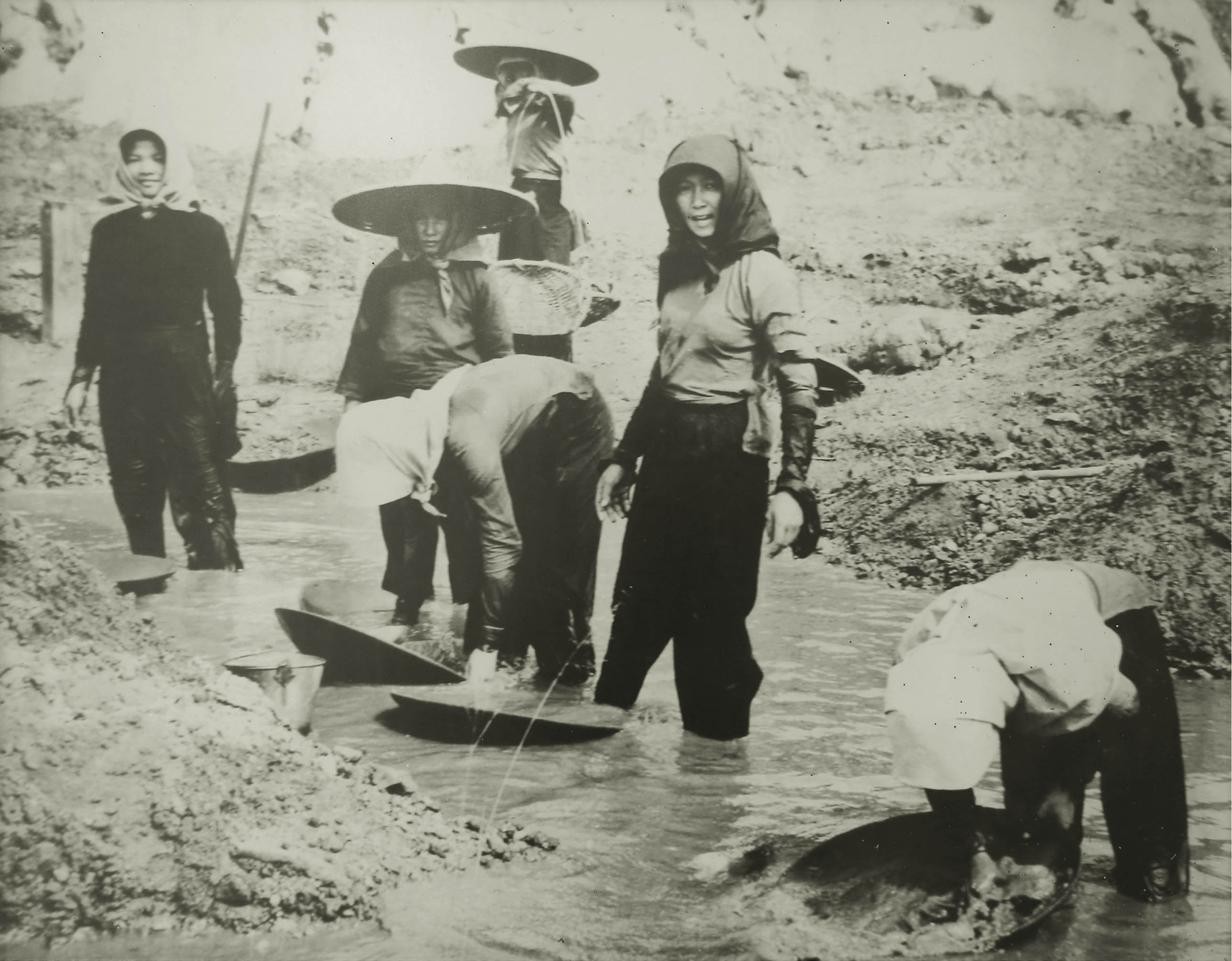 Women of different ethnic backgrounds comprising Chinese, Malay and Mandailing working as tin miners in Perak, Federated Malay States in the 19th century.